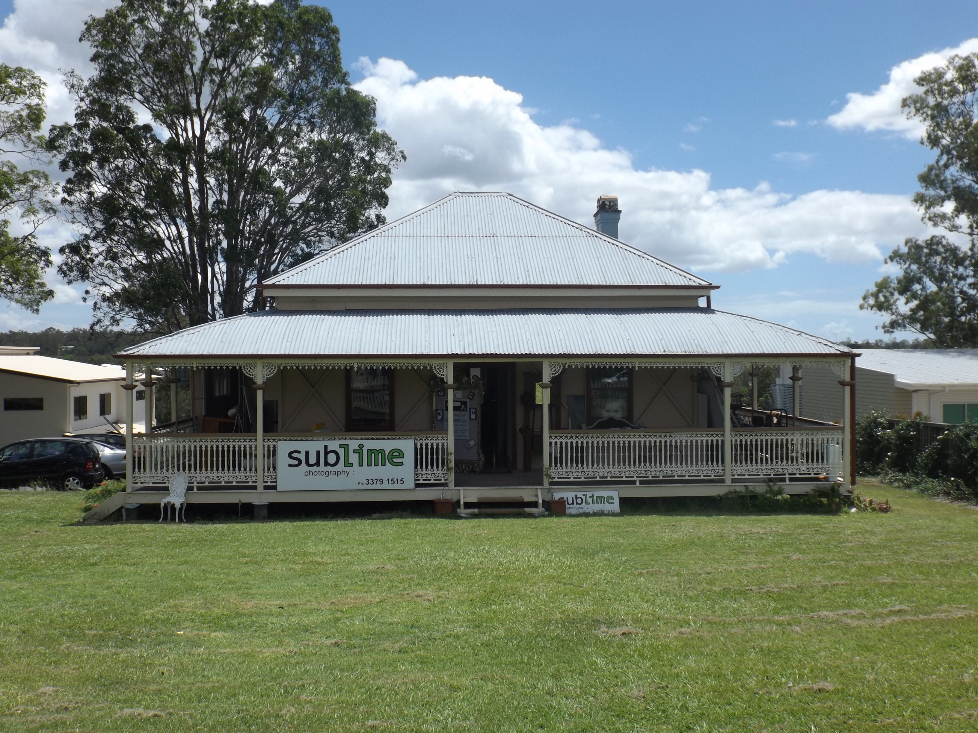 Photo of Avondale at Sinnamon Farm at 645 Seventeen Mile Rocks Road, Sinnamon Park, Brisbane, Queensland, Australia.